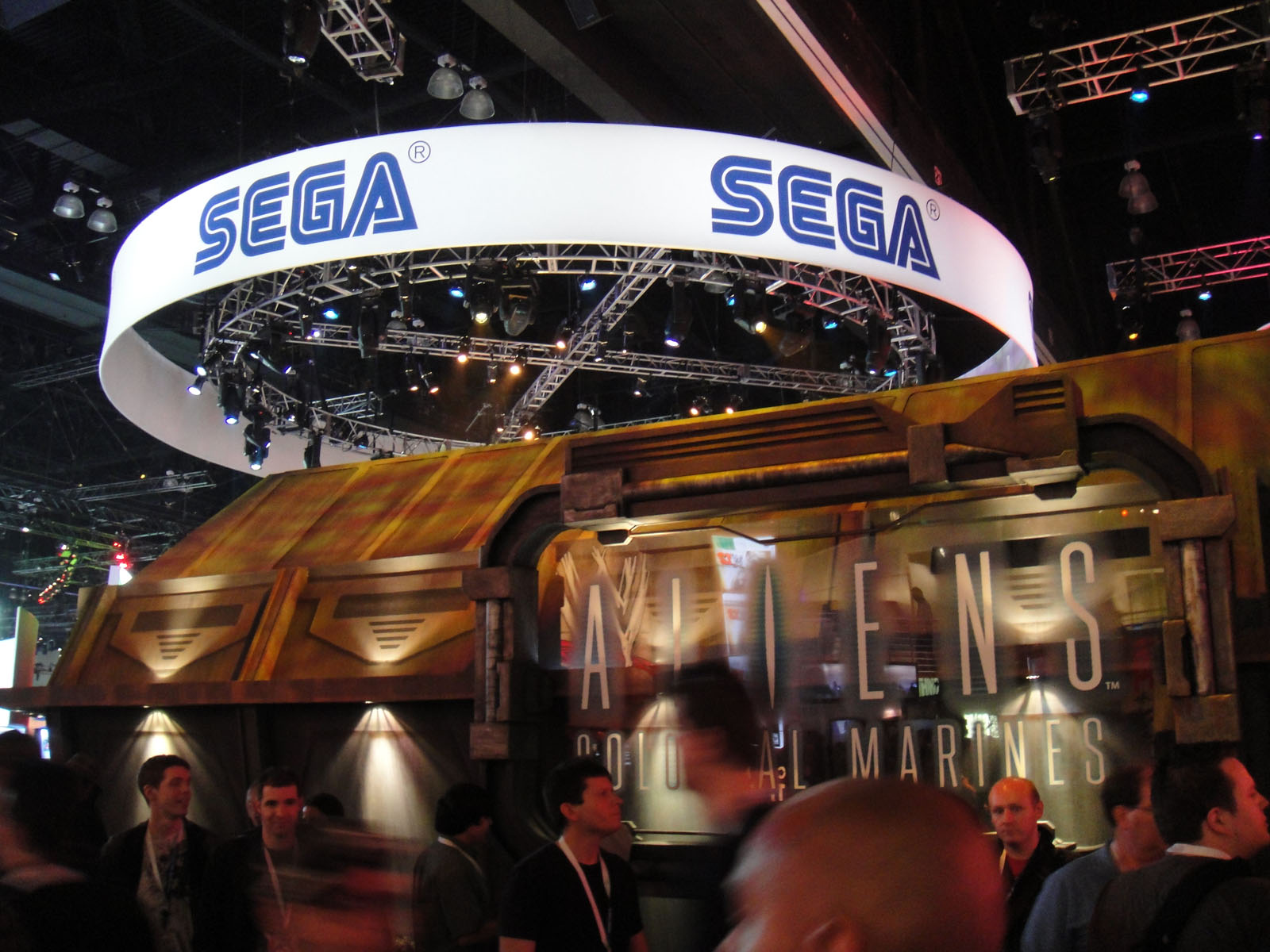 photo 2011 taken by Doug Kline If you're interested in higher resolution versions of my images, contact me via my profile page.